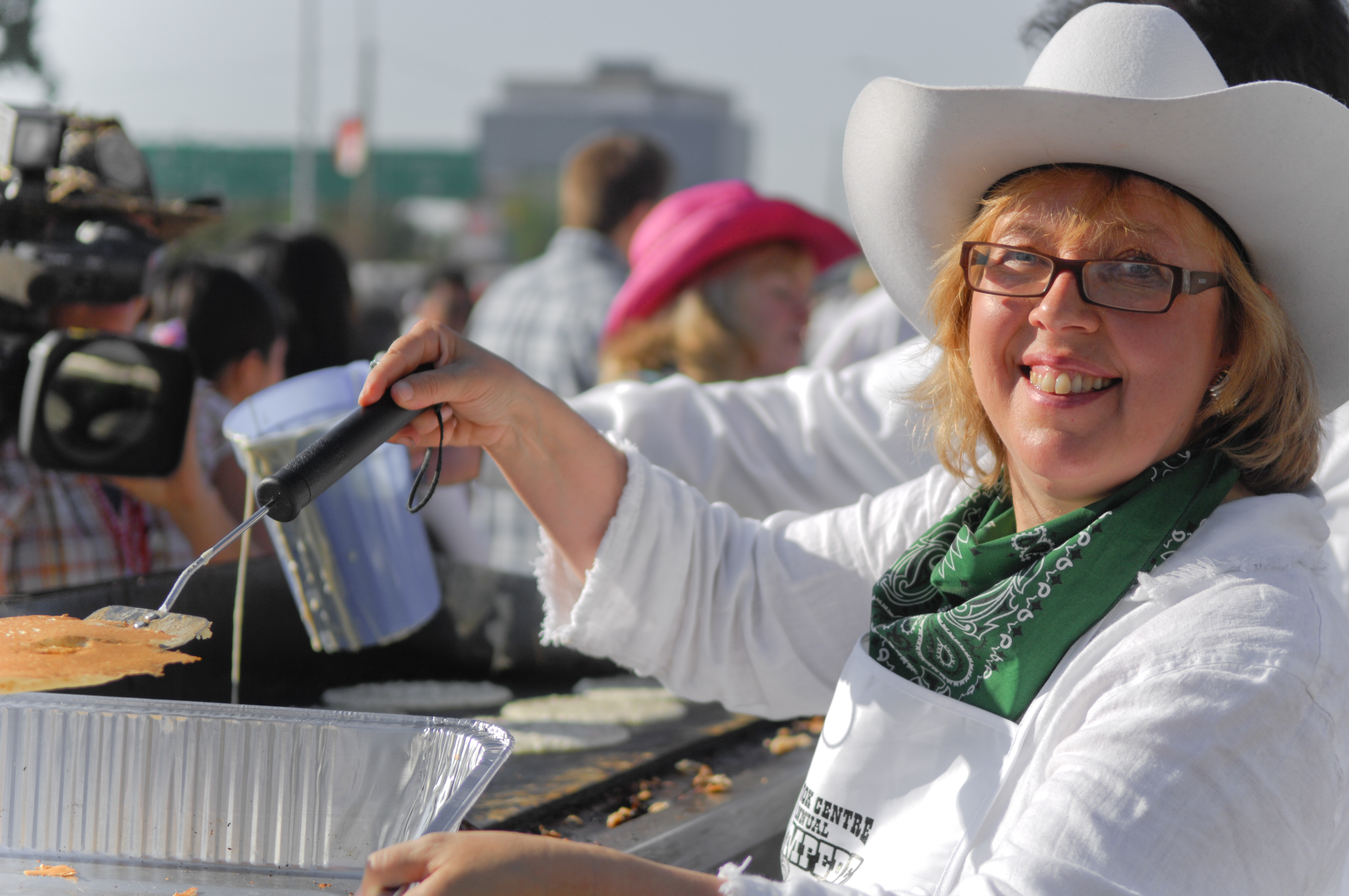 Elizabeth May, leader of the Green Party of Canada served pancakes at the Chinook Mall Stampede Breakfast during the annual Calgary Stampede.